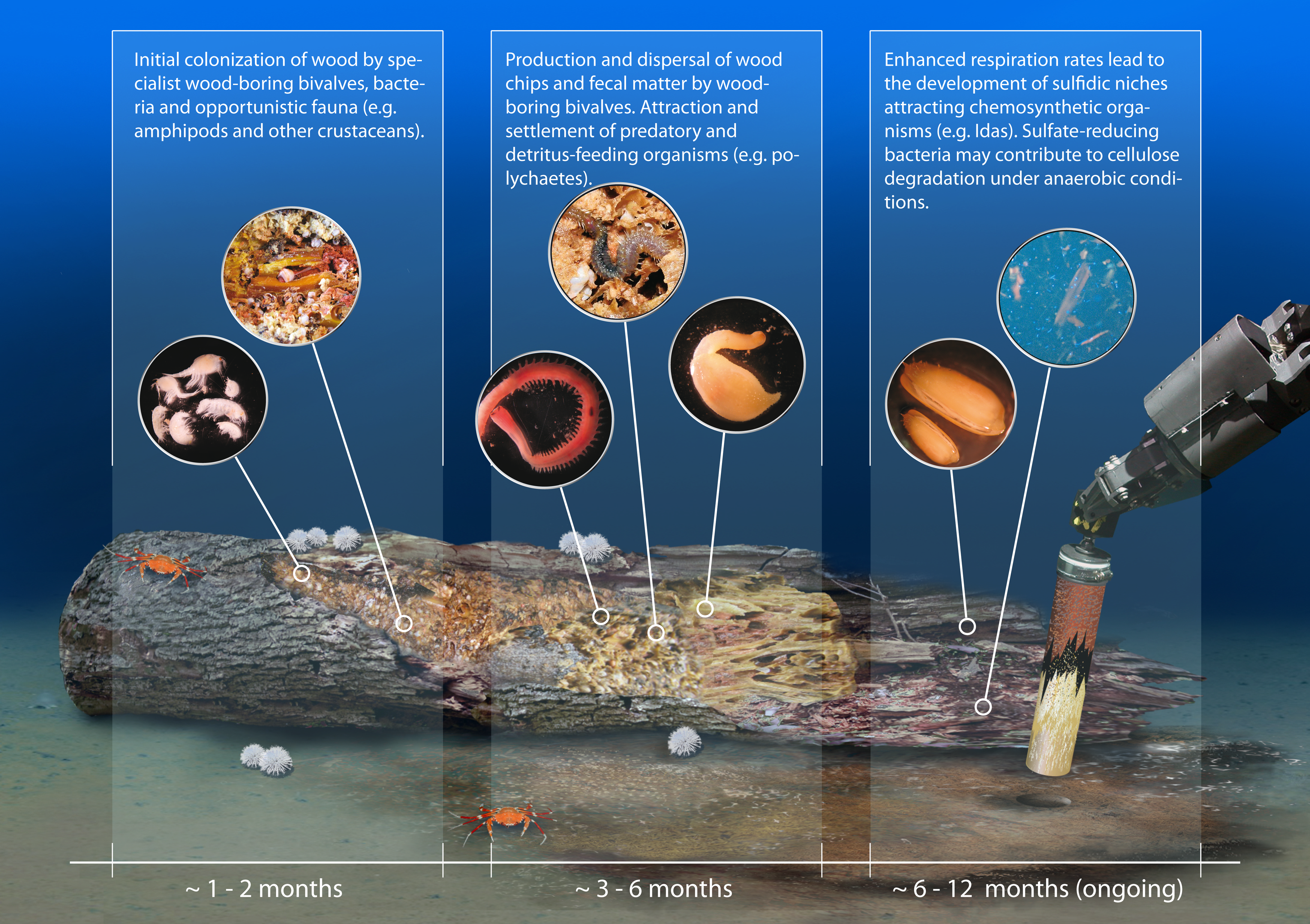 Schematic illustration of a proposed succession of a wood fall during the first year at the deep-sea floor. Organisms shown on inlets from left to right: amphipods and one other type of unidentified crustacean, wood-boring bivalve Xylophaga dorsalis, polychaete Glycera noelae sp. nov., polychaete Cryptonome gen. nov. conclava, n. sp., sipunculid Phascolosoma turnerae, chemosynthetic bivalve Idas modiolaeformis, DAPI-stained bacteria with pieces of wood.